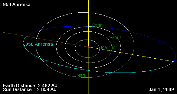 950 Ahrensa orbit, and his position on 01 Jan 2009 (NASA Orbit Viewer applet)